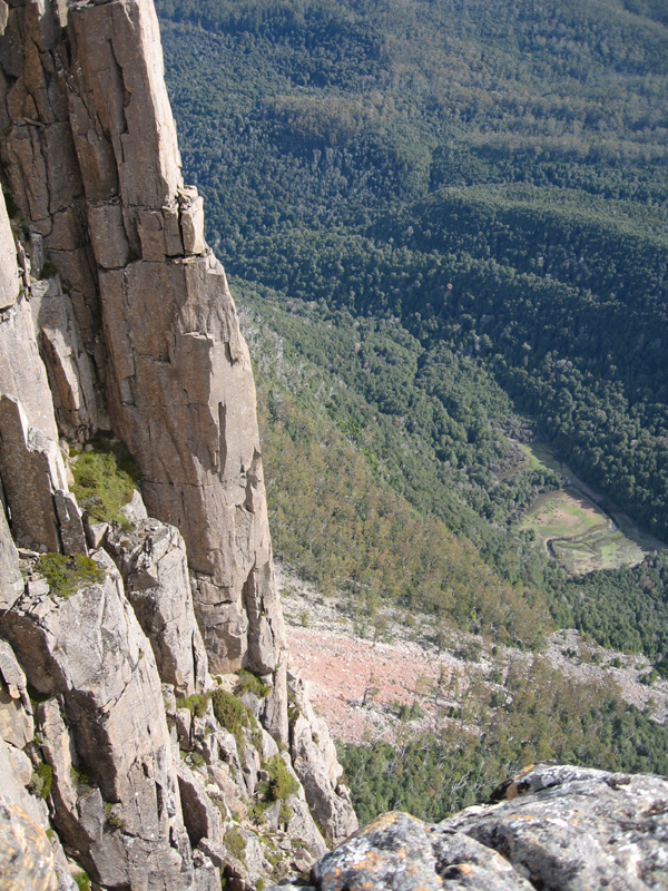 Rock fall and Mersey River from Cathedral summit